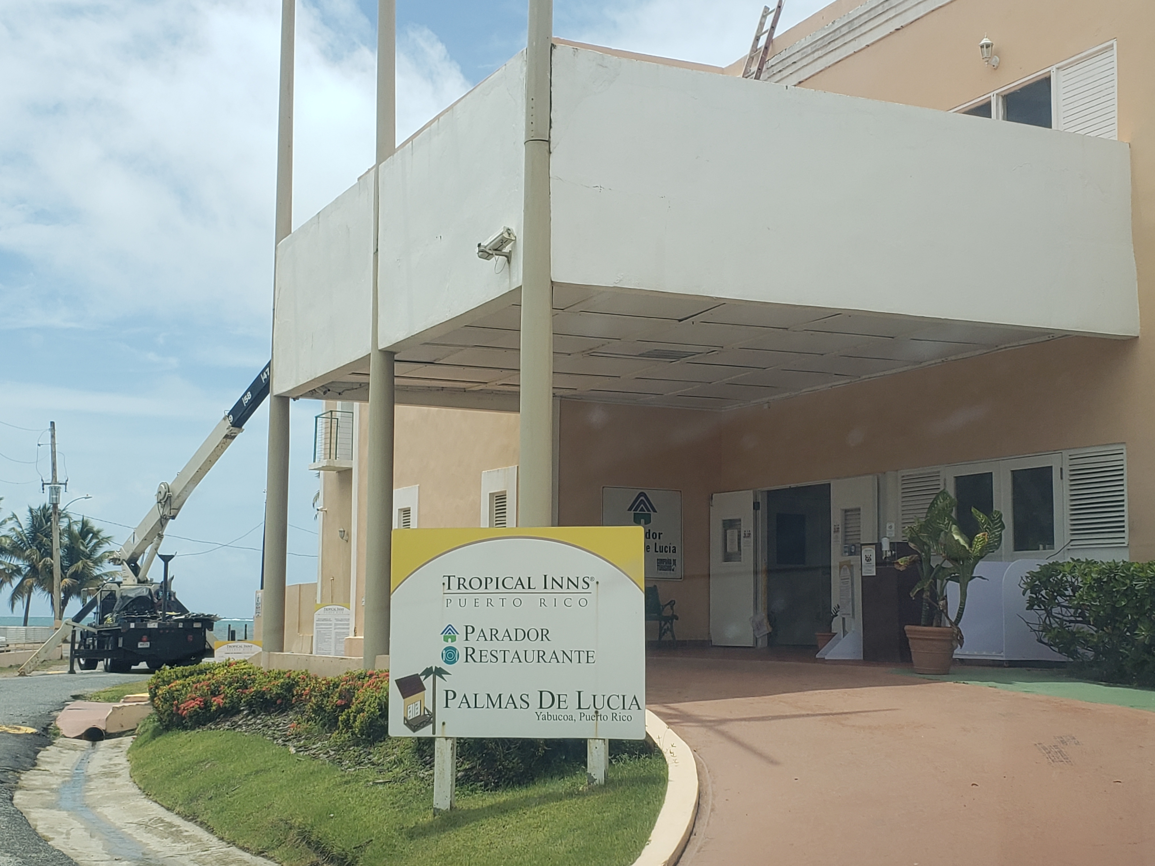 Tropical Inns Puerto Rico Palmas de Lucia